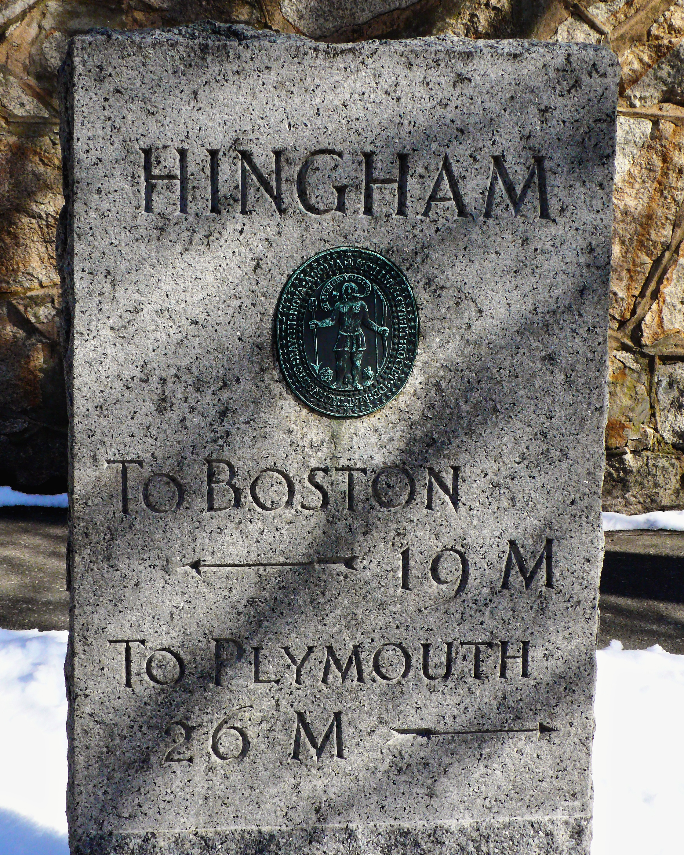 Marker at Hingham, Massachusetts.